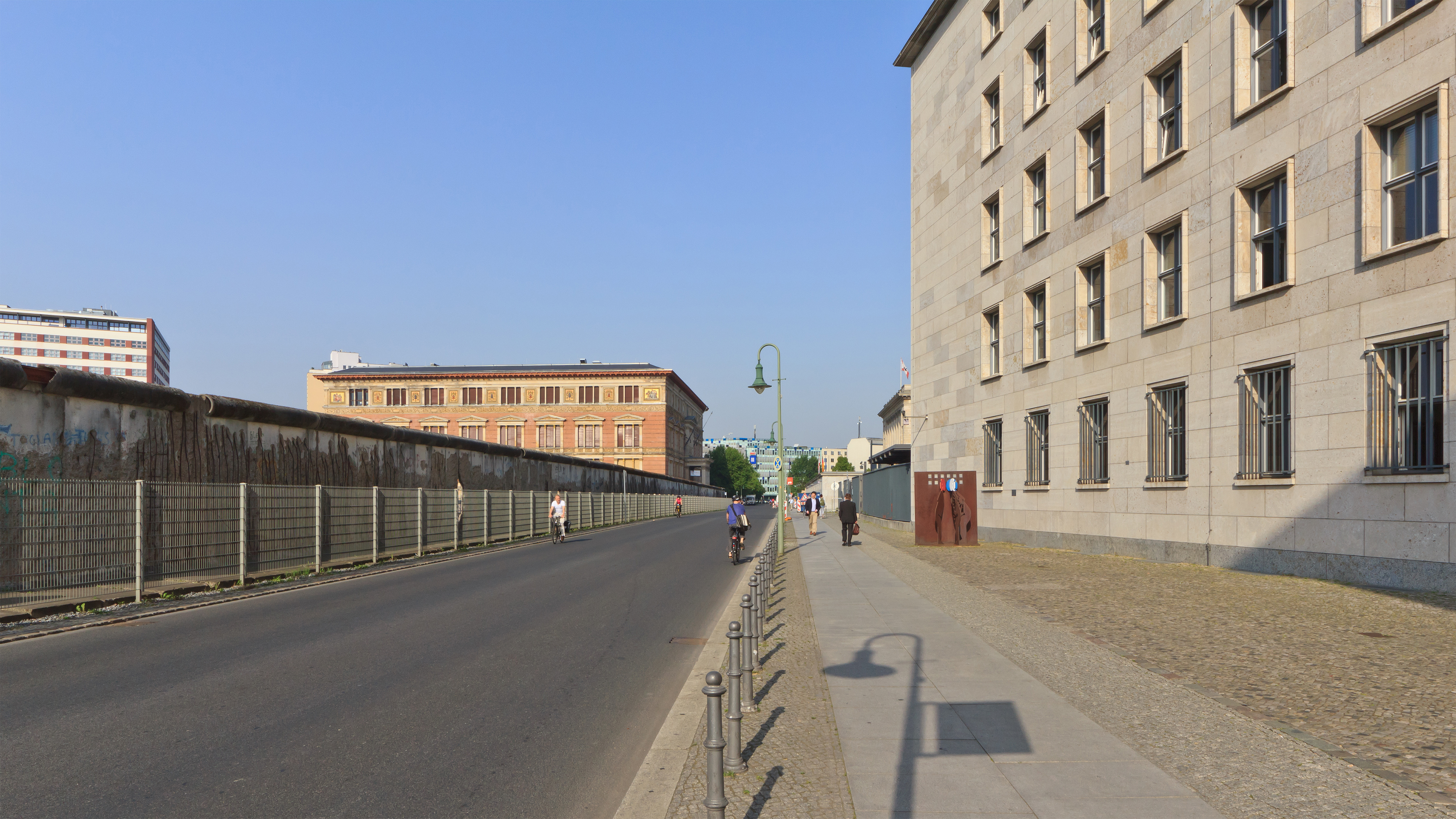 View of Niederkirchnerstraße, Berlin, Germany